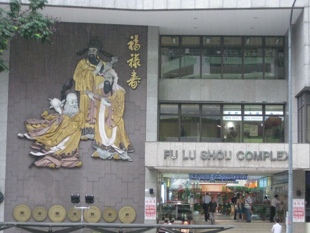 Main entrance of the Fu Lu Shou Complex, Bugis, Singapore.